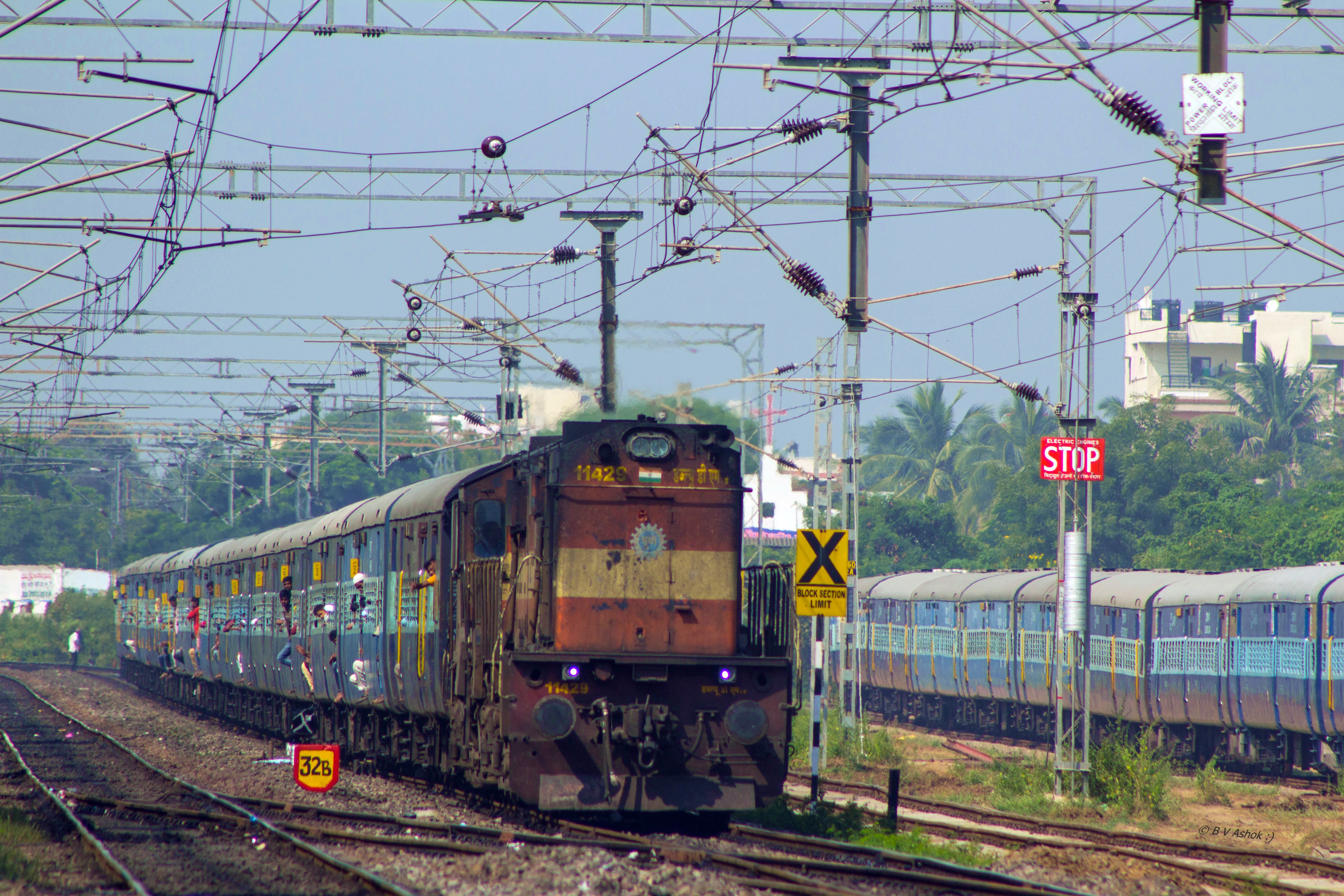 PUNE WDM-3D 11429 cruising towards Lingampalli with 57155 Gulbarga - Hyderabad Passenger....